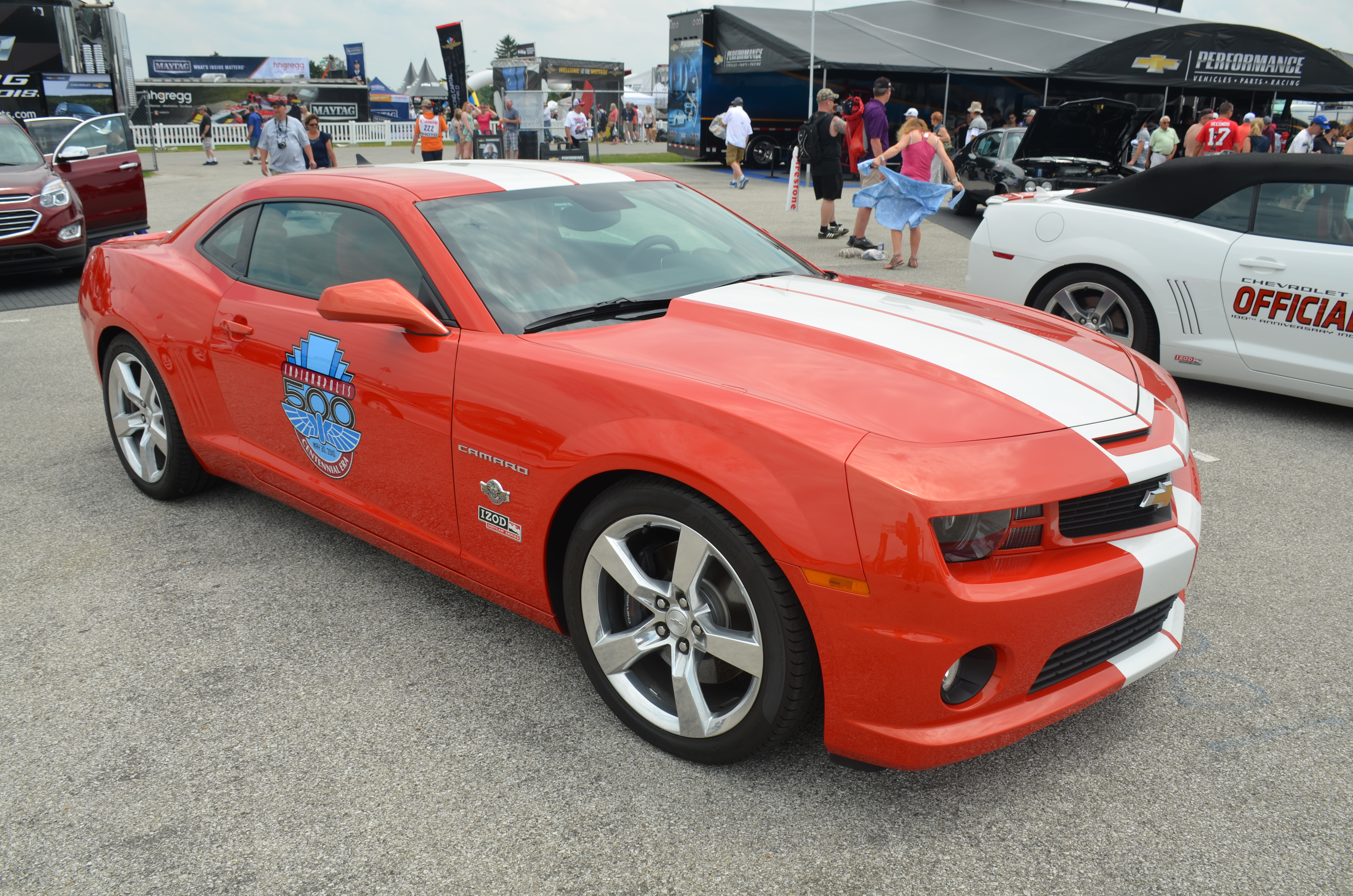 Chevrolet Camaro Pace Car for the 2010 Indianapolis 500